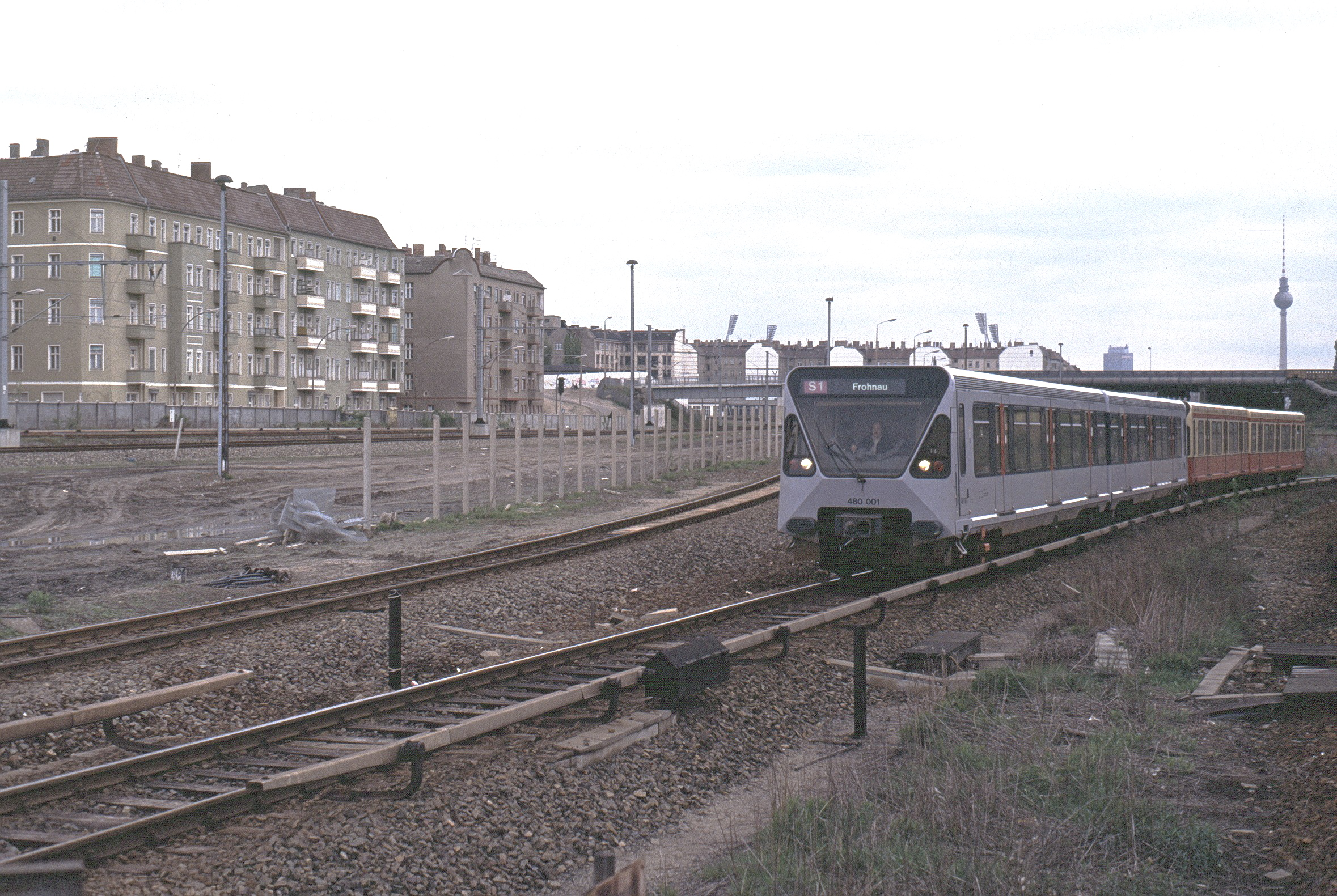 Train type 480 of Berlin's S-Bahn (prototype) south of Bornholmer Str train station; Berlin.